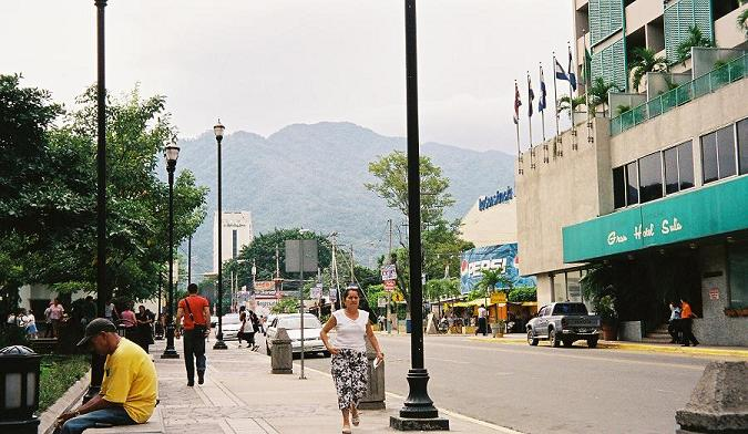 Central Park in San Pedro Sula. Gran Hotel Sula at right. This file has been released into the public domain by Juan Irias, photographer of the image in San Pedro Sula, Honduras, November, 2004.